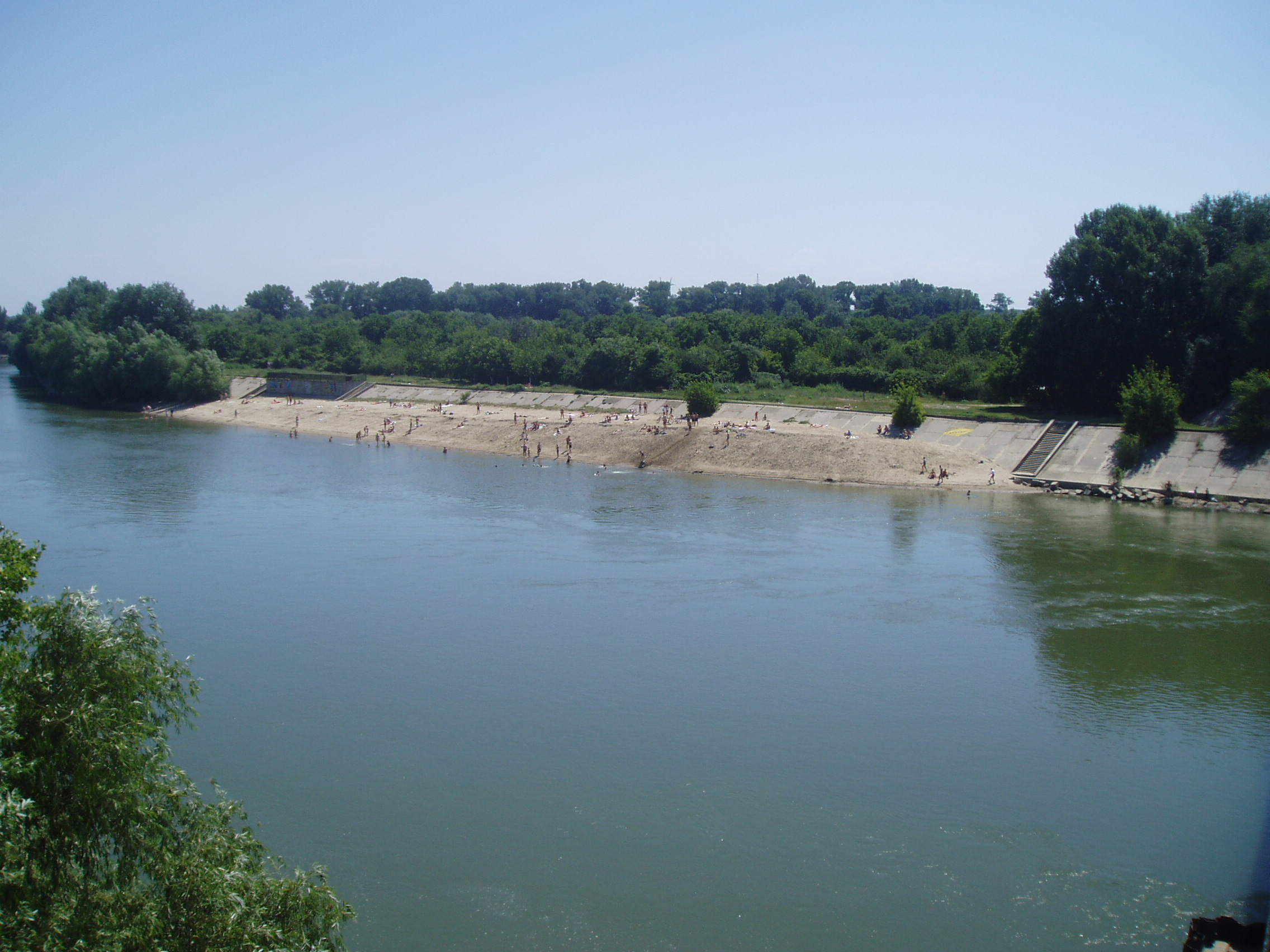 The river of Nistru in Tiraspol, Moldova.